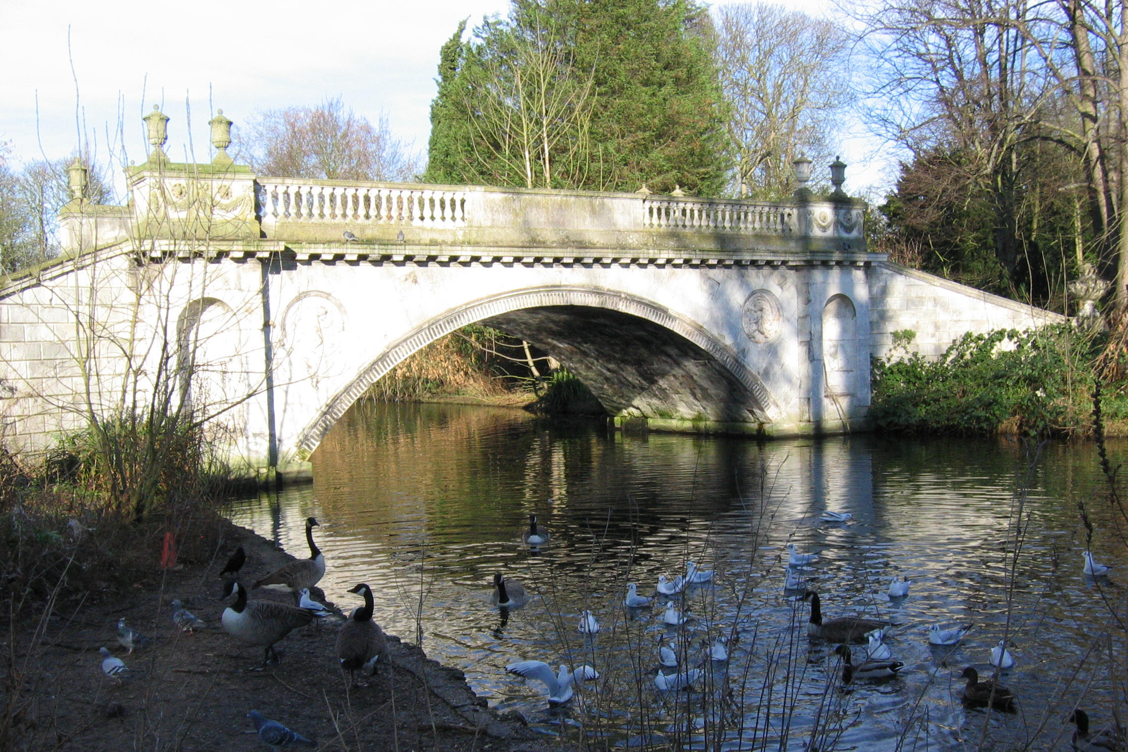 Classic bridge over the lake in Chiswick House grounds, attributed to James Wyatt. This image was on English Wikipedia, and is moved by its author.